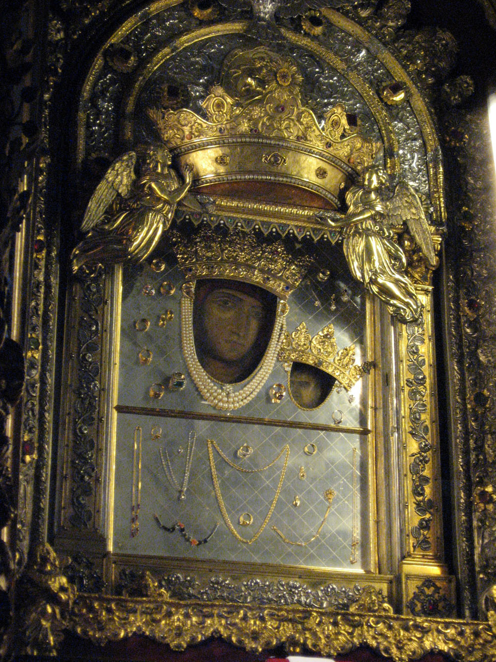 The Madonna of San Luca, a relic that is kept in the Sanctuary of the Madonna di San Luca in Bologna, Italy. Allegedly, this is a portrait of the virgin Mary with child painted by the Evangelist Luke.